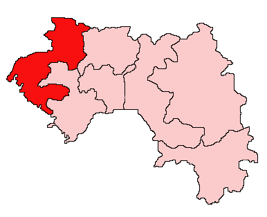 Map of Guinea showing Boké Region. Created using the GIMP